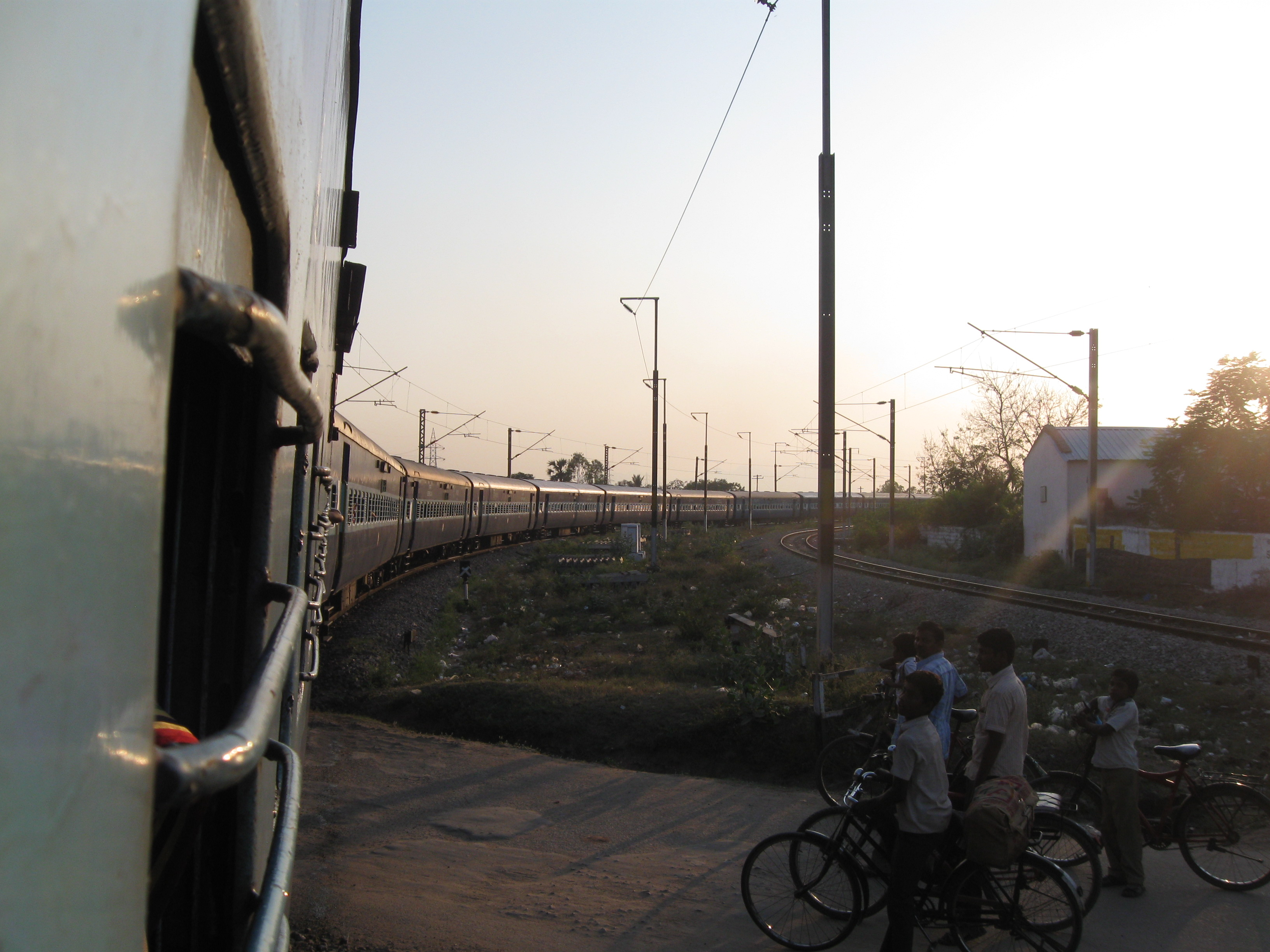 Padmavathi Express leaving Tirupathi Station